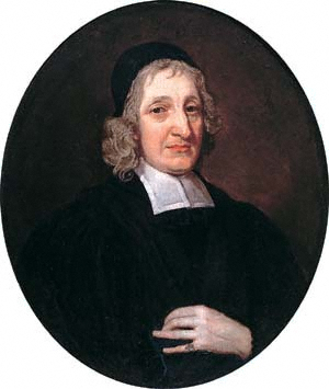 Portrait of John Paterson, Archbishop of Glasgow